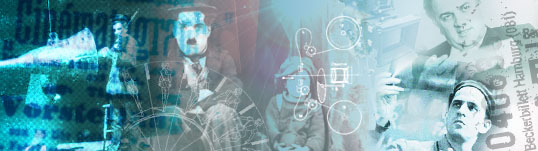 Portal illustration (details from Image:530px-Kinoprogramm_Wien_1896.jpg, Image:DicksonFilm_Still.png, Image:Through-the-Back-Door-photo.jpg, Image:Ingmar_Bergman_1957.jpg, Image:Chaplin_The_Kid.jpg, Image:Phenakistiscope.jpg, Image:Ticket (unseparated) Kurkino-Berchtesgaden.jpg, Image:513px-Optic_Projection_fig_225.jpg, Image:Screenplaybw.jpg and Image:Federico_Fellini_NYWTS_2.jpg)